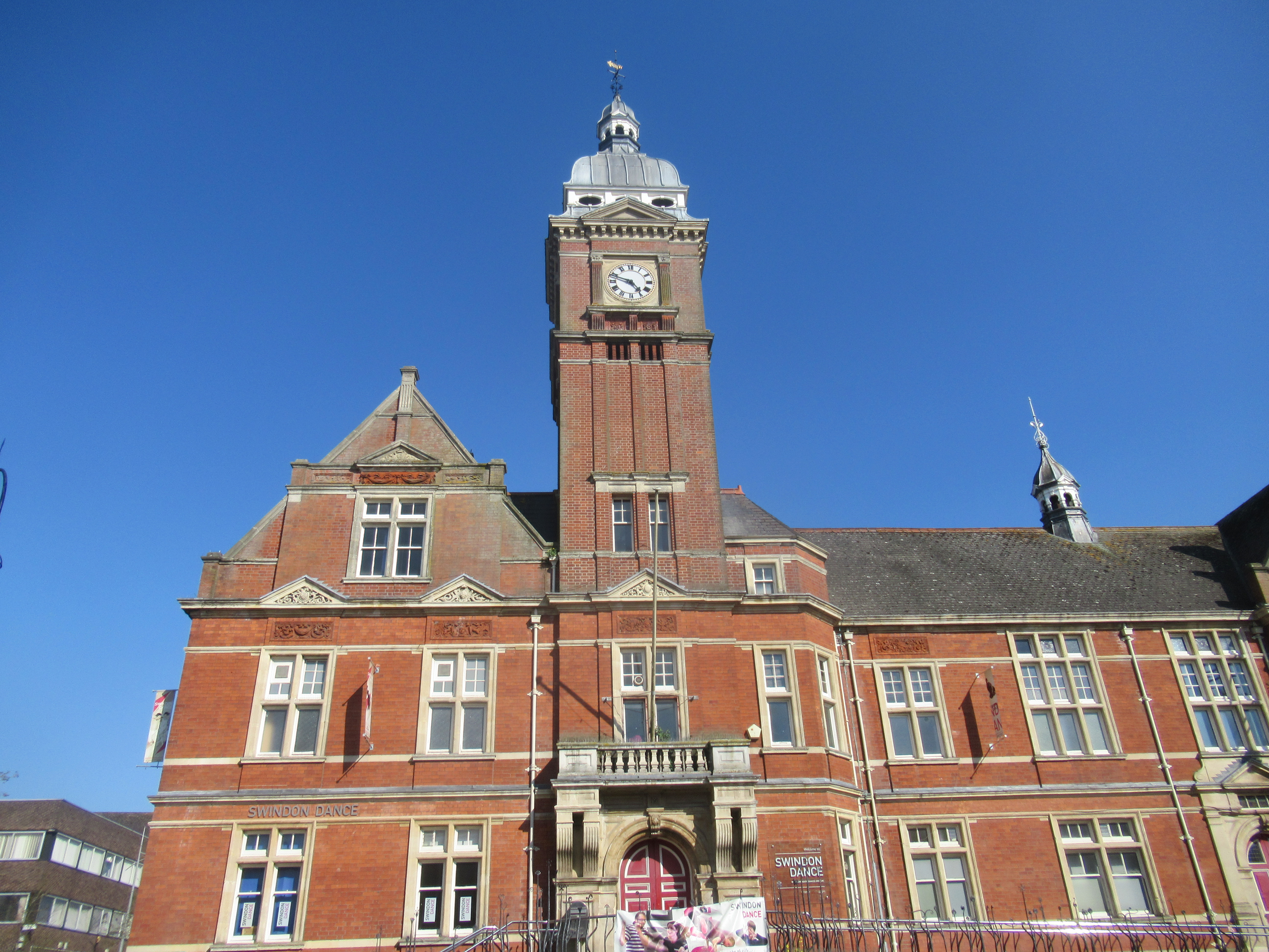 town hall 2018